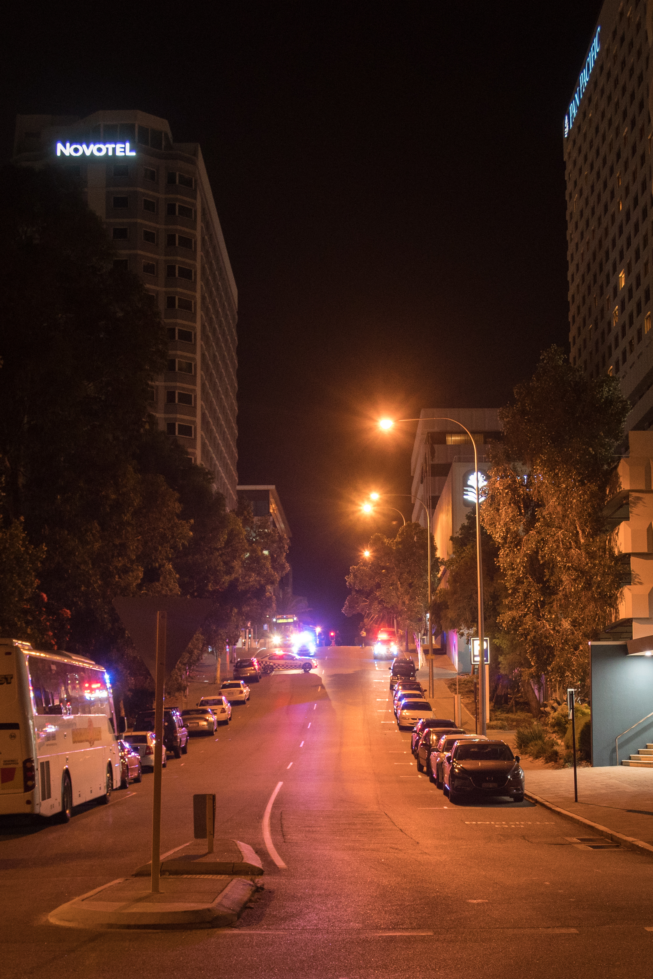 During the COVID 19 isolation period in Western Australia, arriving in WA were taken to a hotel where they placed into quarantine for 14 days, this is a group of approximately 60 people from the Artania going into quarantine at the Novatel hotel on Hill street, Perth while awaiting flights home.